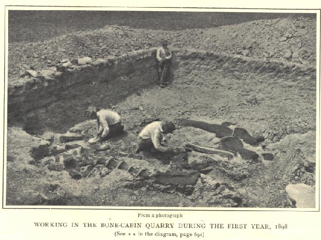 Excavating a fossil at Bone Cabin Quarry, 1898. Photo from Century Magazine, 1904. Pre-1923 image not subject to copyright in the United States. Original found at [1] with disclaimer at [2].